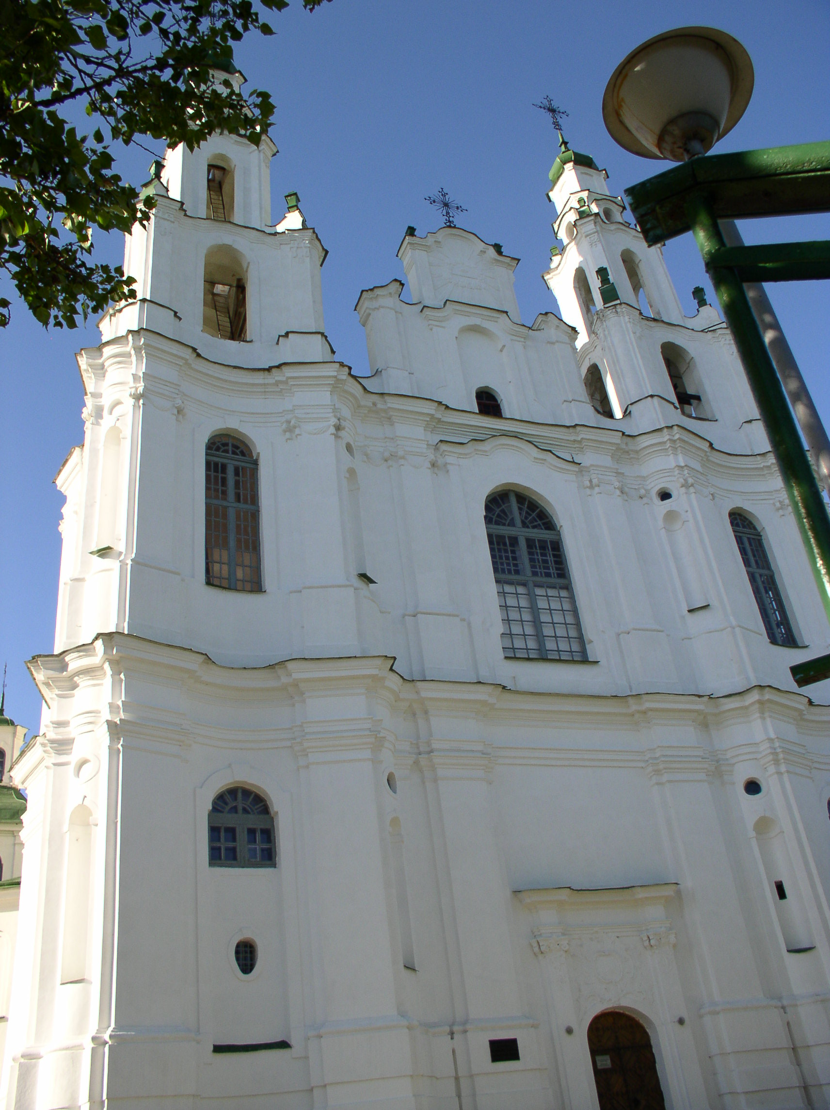 Cathedral of Saint Sophia. Polatsk, Belarus.